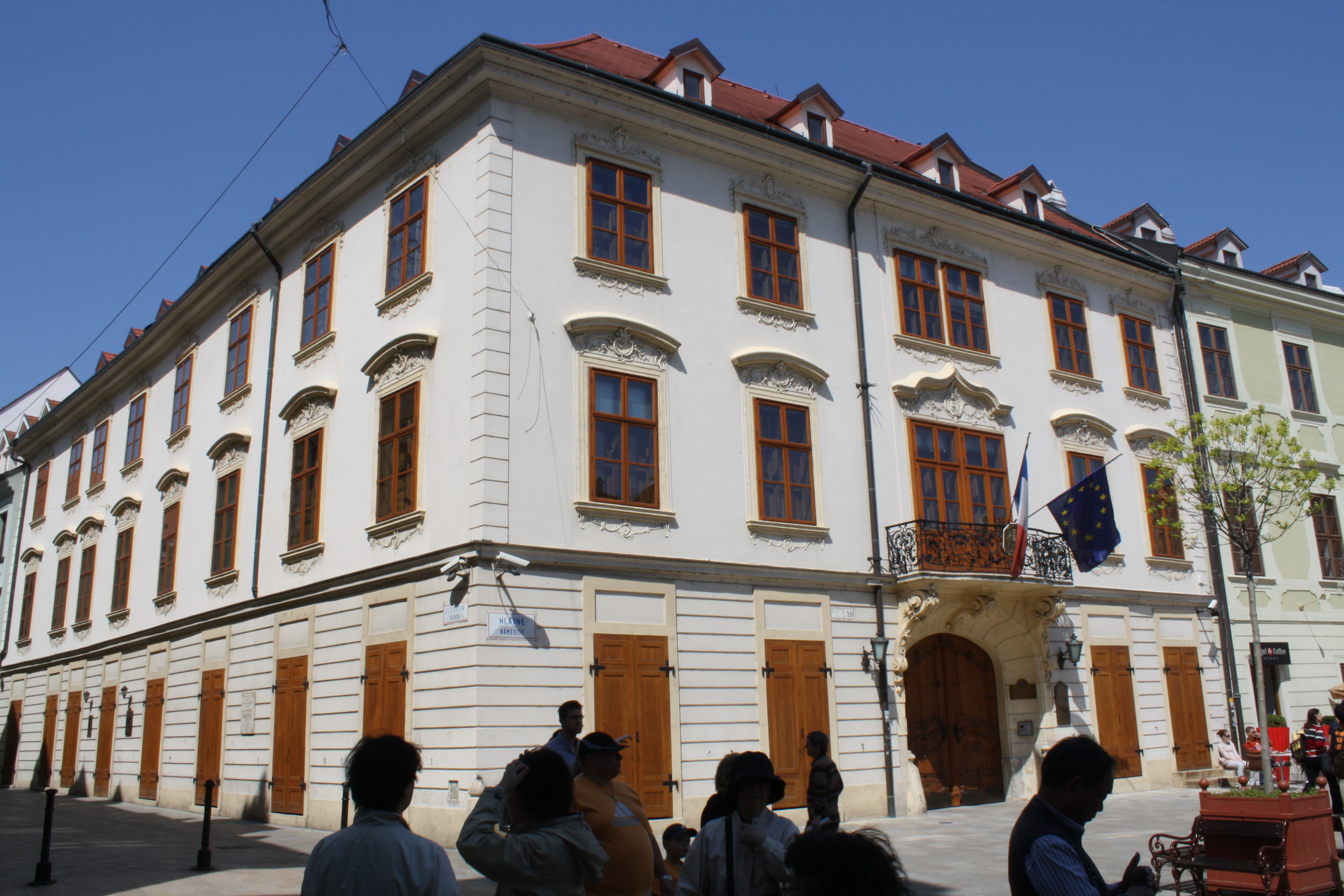 Kutscherfeld palace(today Esterházy palace) with french ambassador in Bratislava